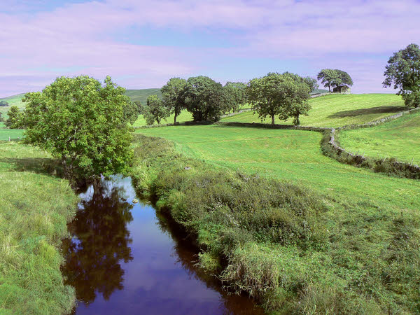 River Bain This river is reputed to be the shortest river in the UK. It starts its short journey at Semerwater near Countersett and flows for two miles to meet the River Ure near Bainbridge.